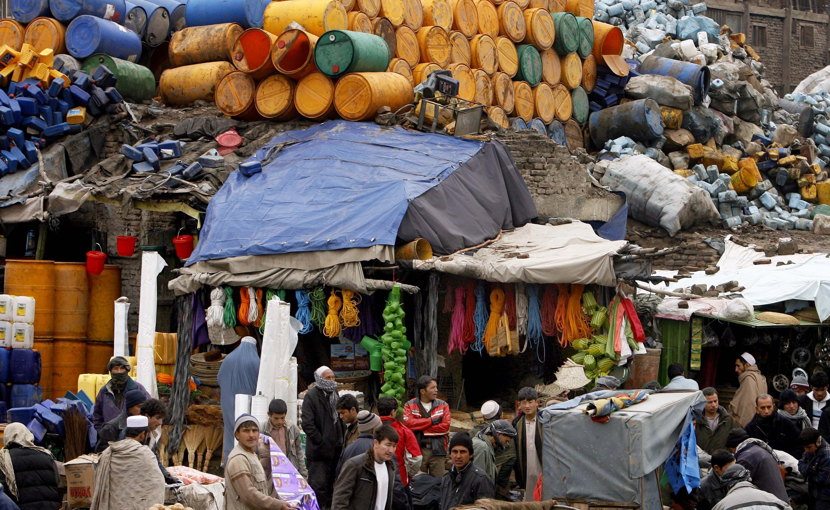 Vibrant colors dominate the scene at an outdoor market in Afghanistan.